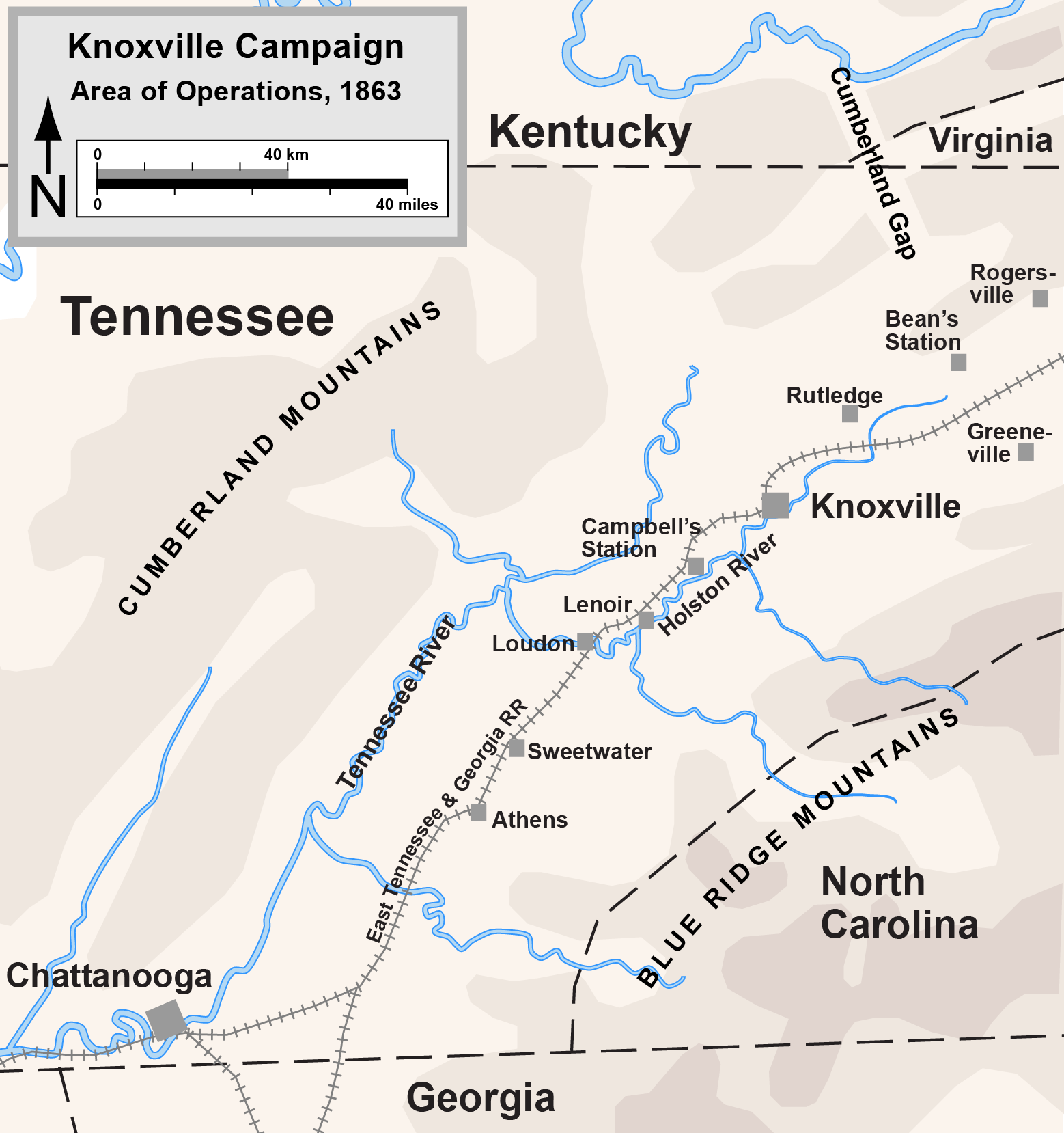 Map of the Knoxville Campaign of the American Civil War. Drawn by Hal Jespersen in Adobe Illustrator CS5. Graphic source file is available at